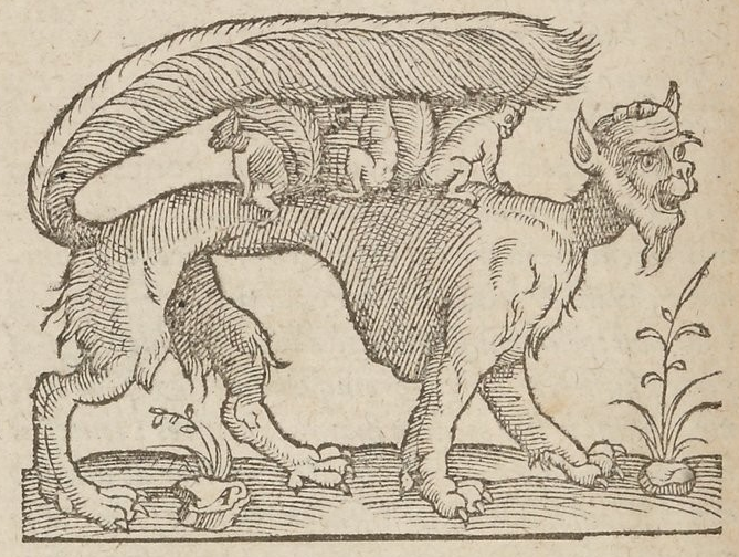 Su ou Succarath from Patagonia.